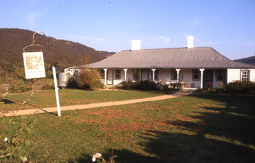 Collits Inn, Hartley Vale, Blue Mountains, NSW, Australia (Kodachrome slide scanned at low res, originally taken c.1989)